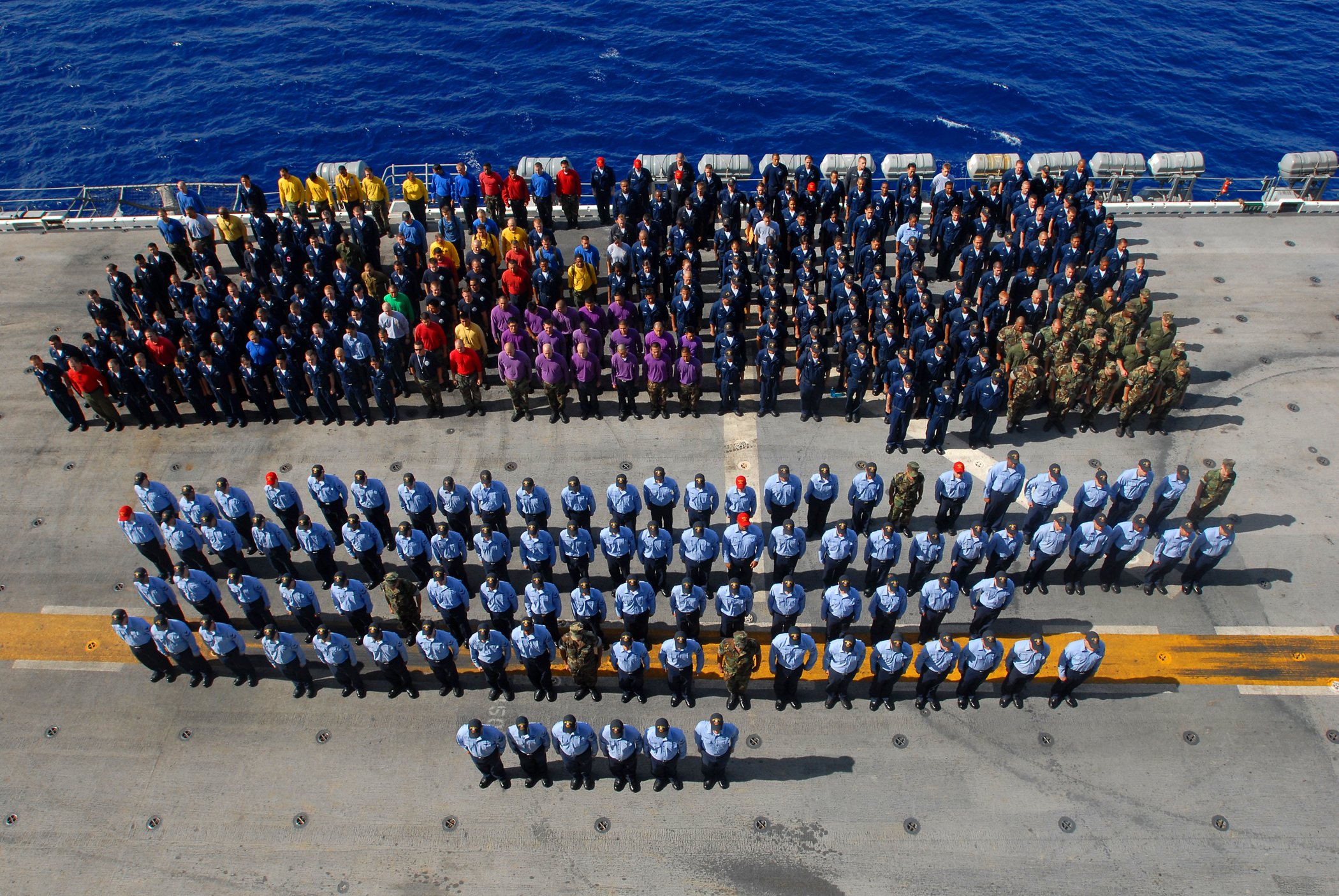 Recently promoted petty officers stand at attention during a frocking ceremony(Text by United States Navy)